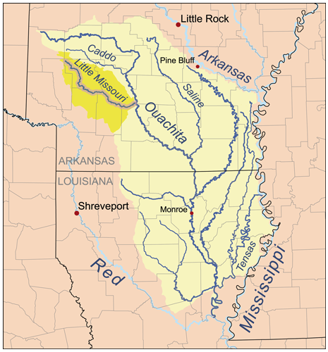 Map of the Little Missouri River highlighted within the Ouachita River watershed. The darker yellow indicates the Little Missouri River watershed.